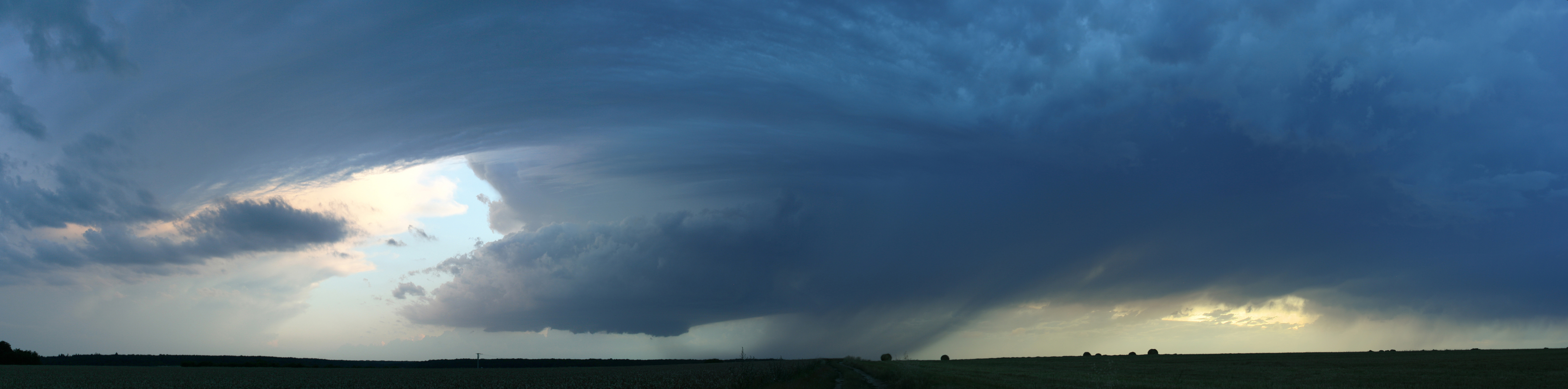 Typical supercell with wall cloud, its surrounding striations and precipitations. A tail cloud appeared a few minutes later. Images taken between Rouvres and Oulins, Eure-et-Loir, France. Panorama assembled with Hugin.